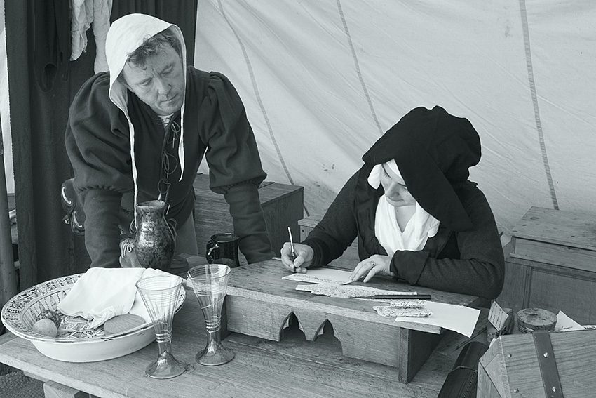 Scrivener of the Ferrers Household circa 1470 records the will of a man-at-arms (historic reenactment) Author: Antony McCallum